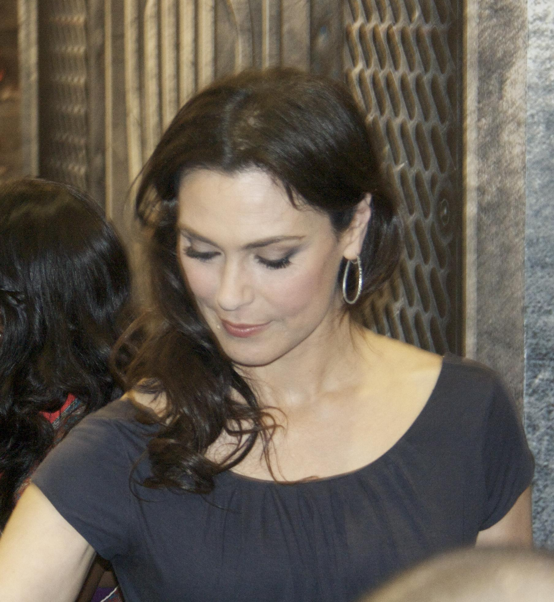 Actress Michelle Forbes at 2009 Comic-Con International - "True Blood" panel.